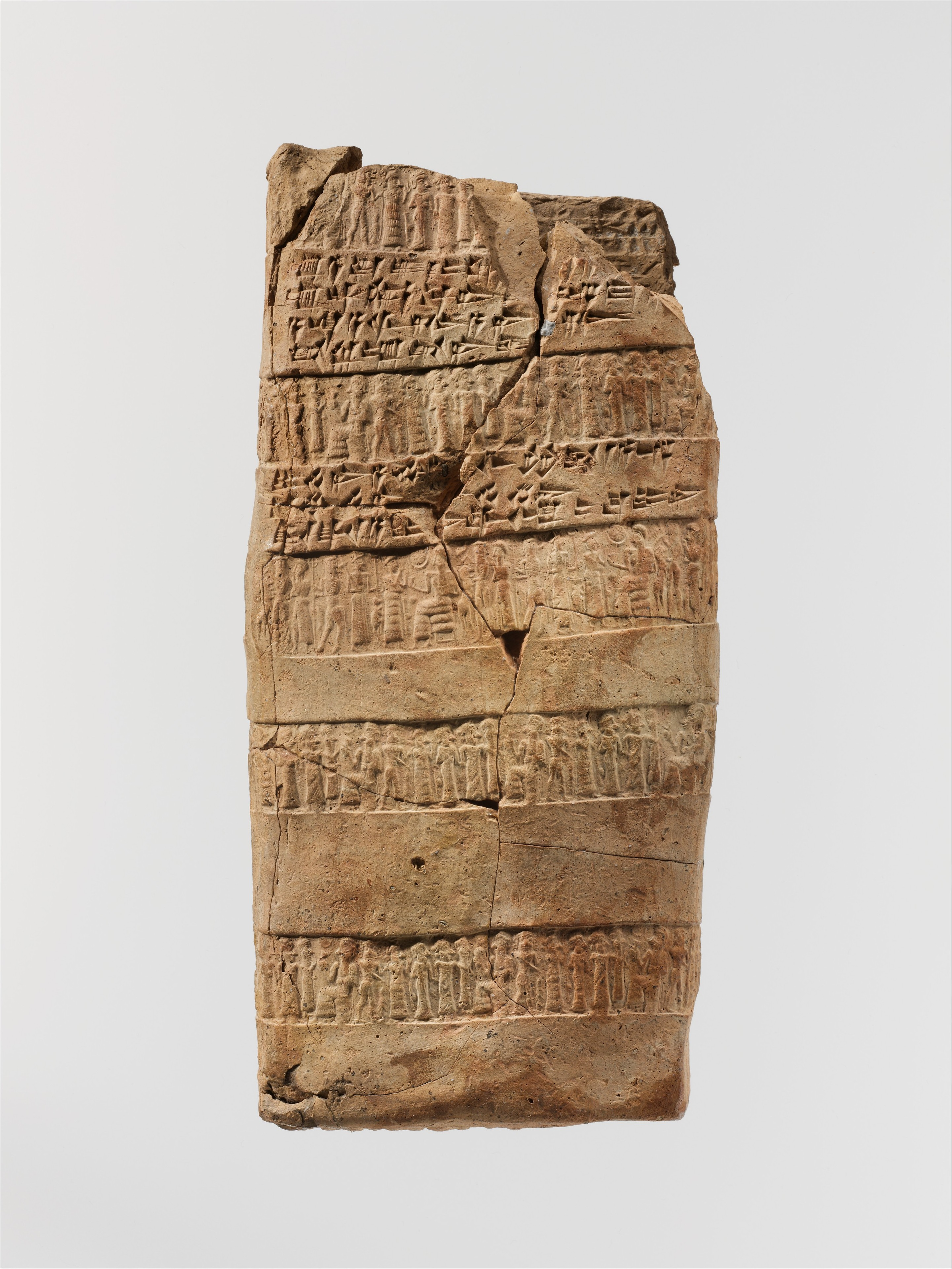 Old Assyrian Trading Colony; Cuneiform tablet case; Clay-Tablets-Inscribed-Seal Impressions